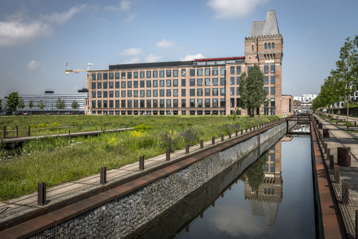 EuraTechnologies : startups incubator and accelerator in Lille, France